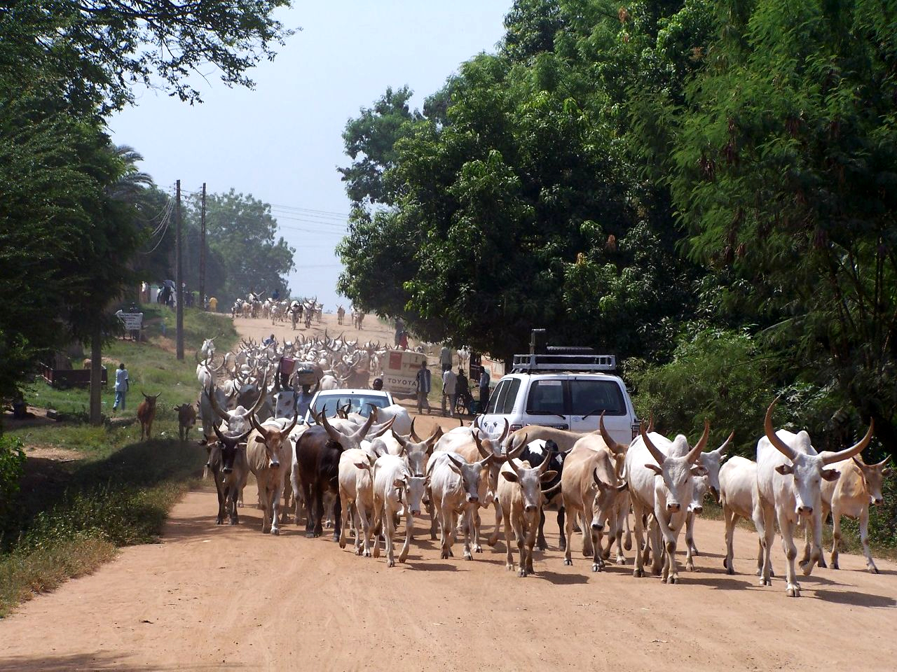 Cattle on the street in Juba — of Central Equatoria state. In the central Equatoria region of South Sudan. taken on December 30, 2005